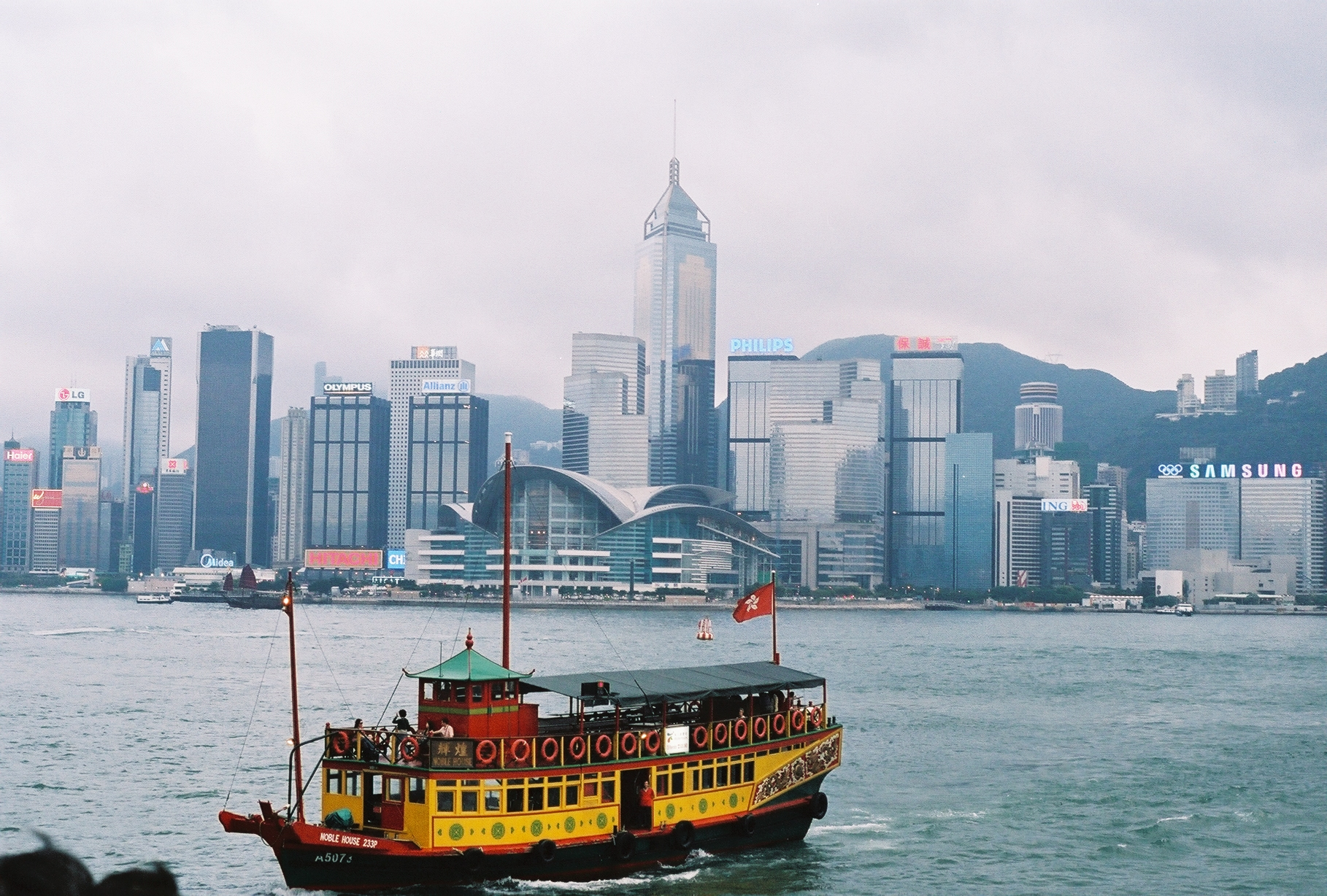 Baie de Hong Kong Note: The Noble House boat of Watertours has been renamed Wing On Travel [1]